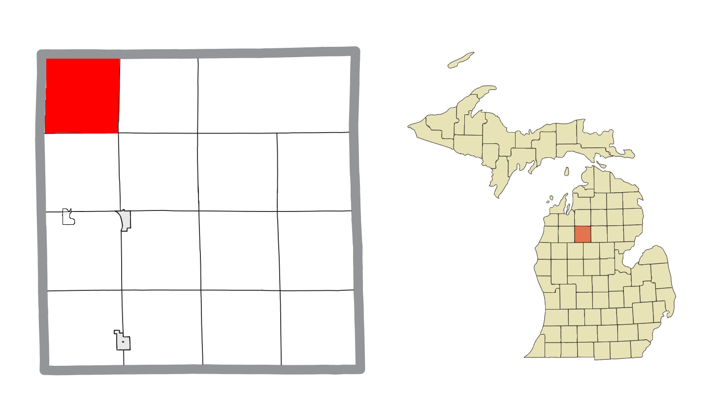 Bloomfield Township (Missaukee), MI